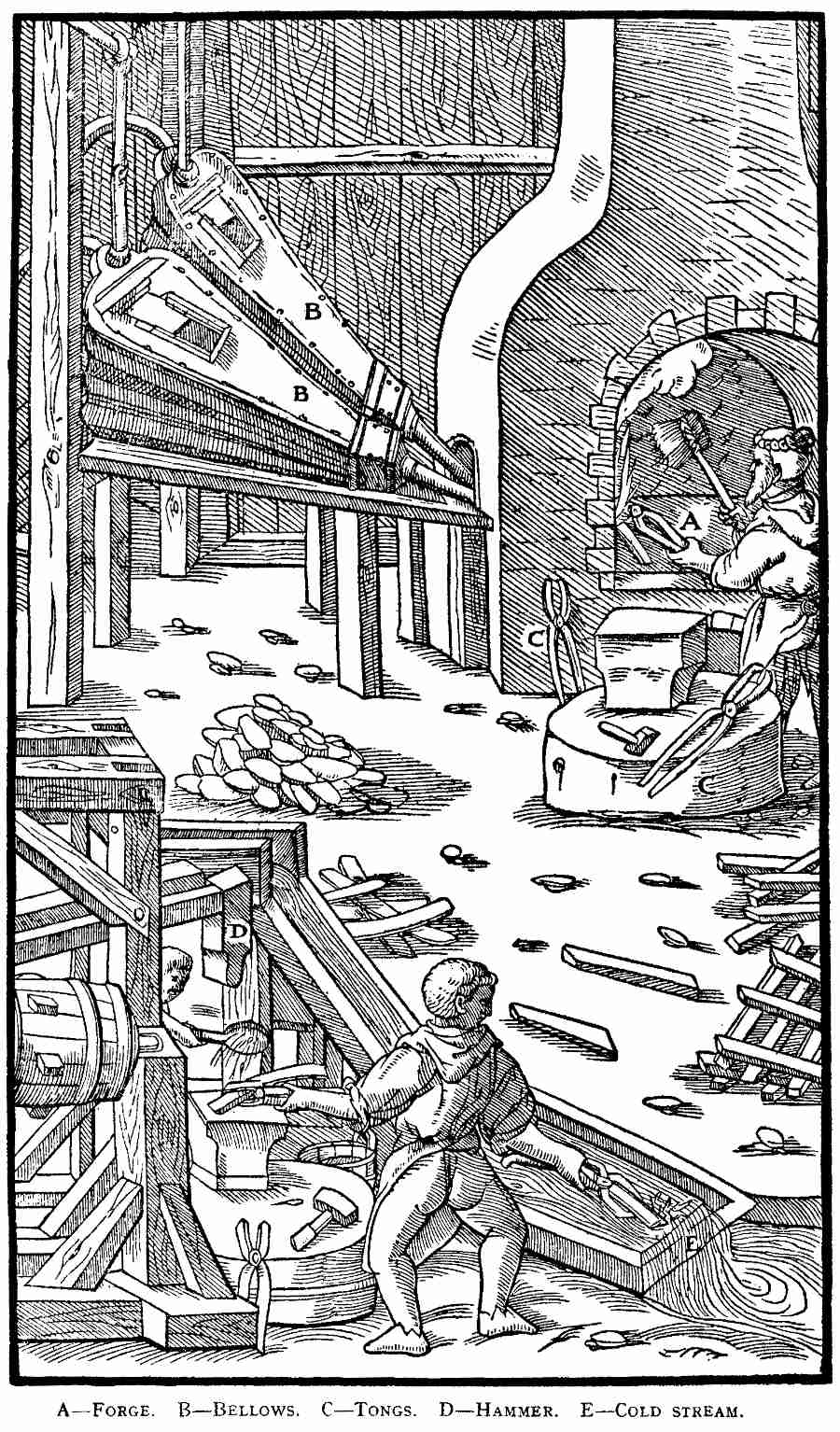 From page 426 of Agricola's De re Metallica, concerning steelmaking. The top figure is attending the hearth. The bottom figure is controlling a stamping machine.